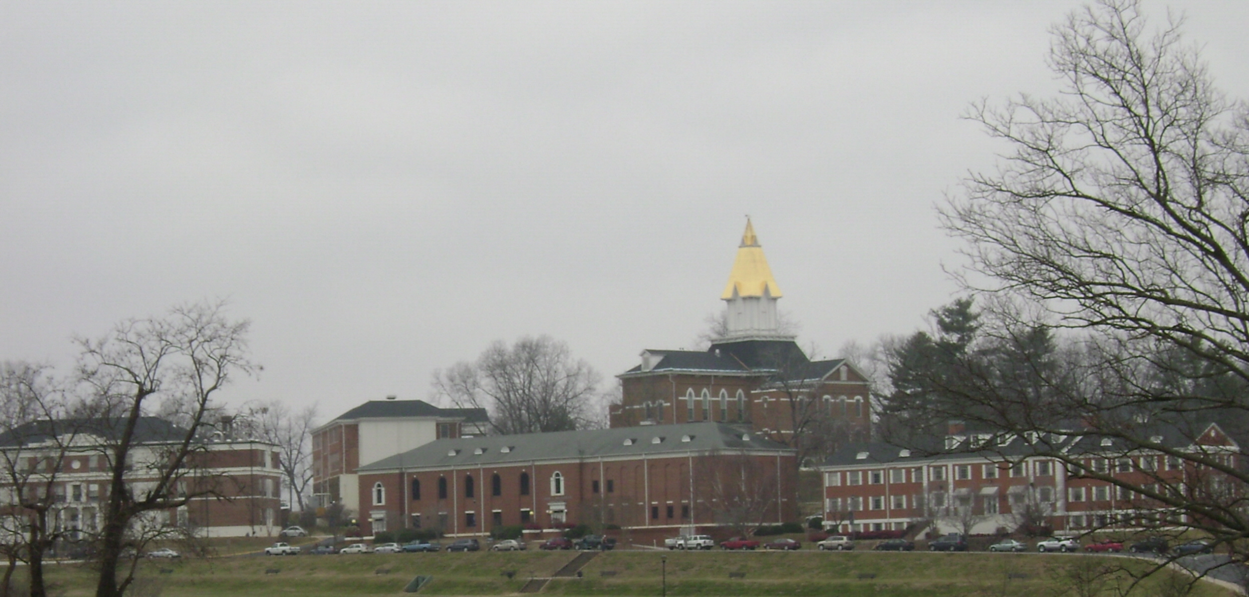 Picture of North Georgia College and State University, showing Rogers Hall, West Main Hall, the John L. Nix Mountain Cultural Center, Price Memorial Hall, and Barnes Hall.